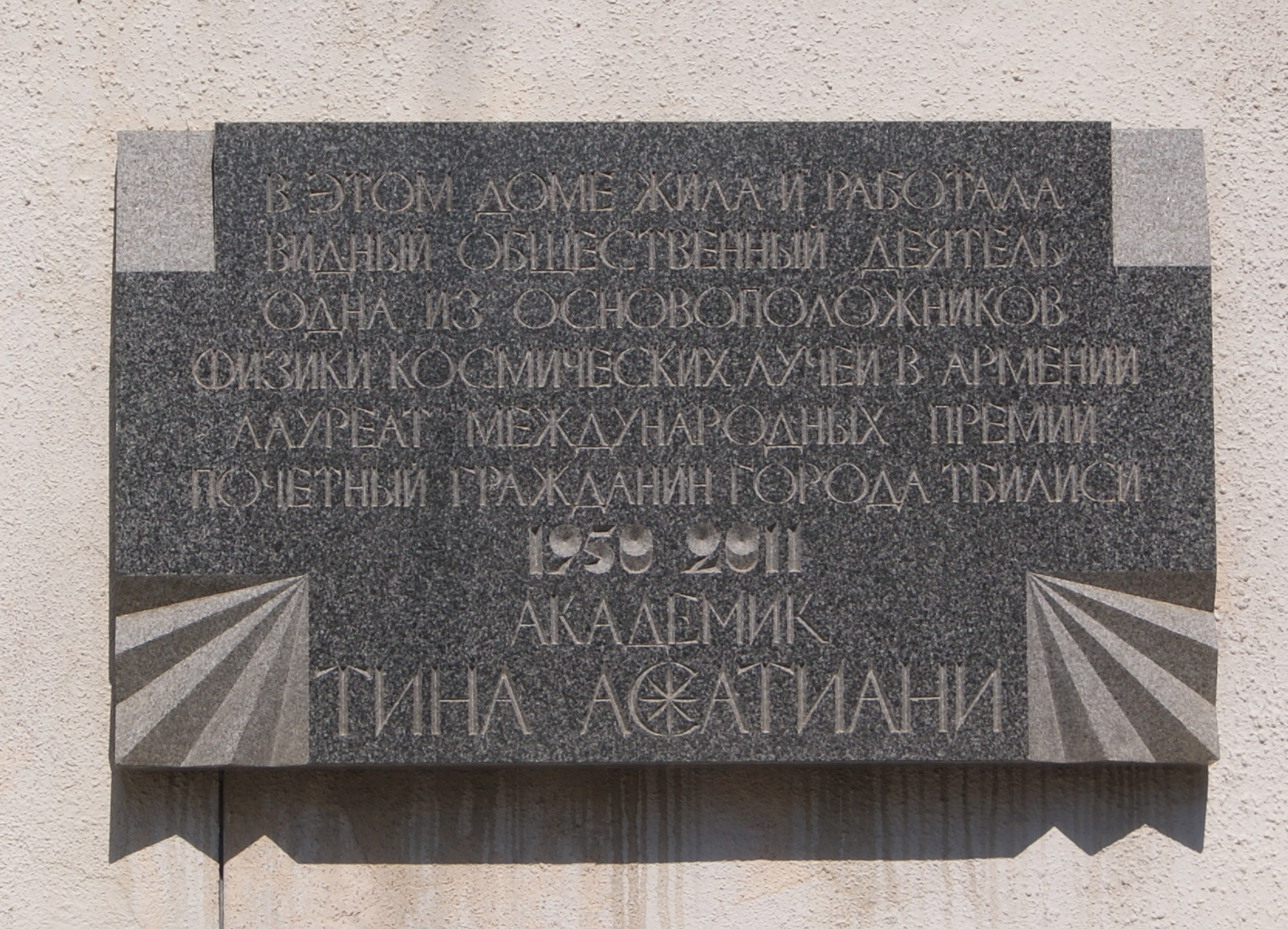 Plaque to Tina Asatiani